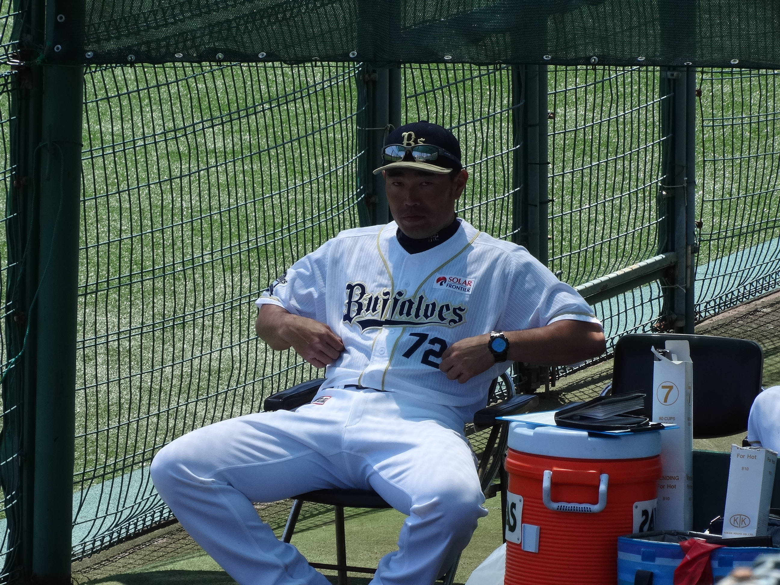 Masafumi Hirai, coach of the Orix Buffaloes, at Kobe Sports Park Sub Baseball Ground.